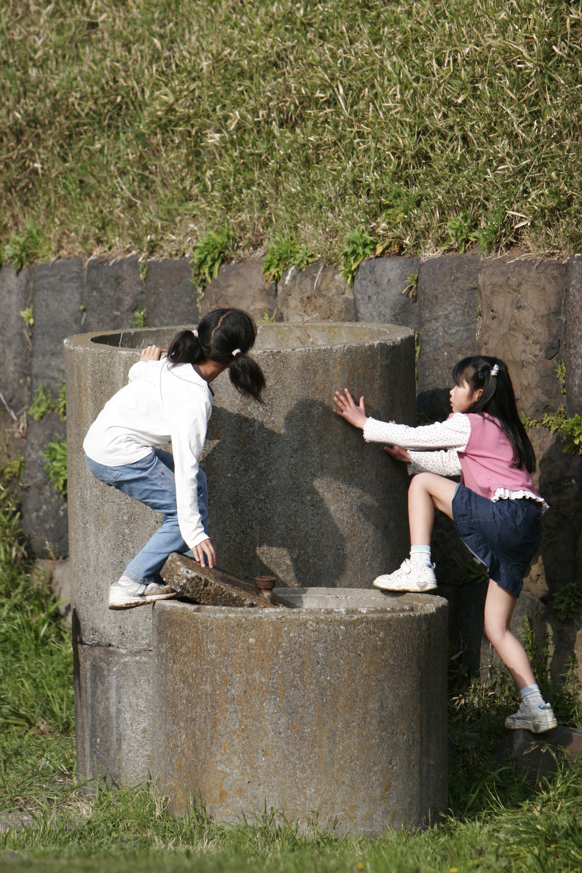 Two Japanese female children climbing up a outer side of a well rings.